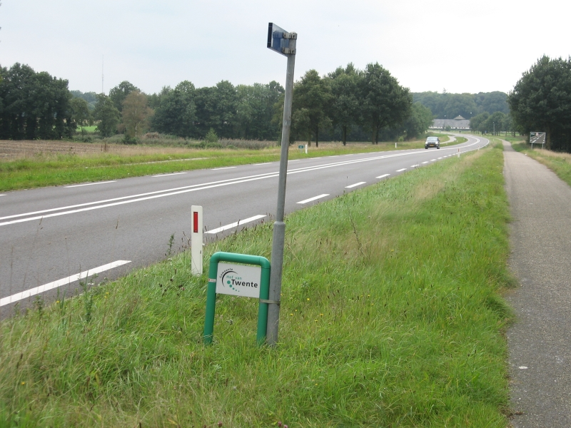 Sign marking the border of the municipality of Hof van Twente